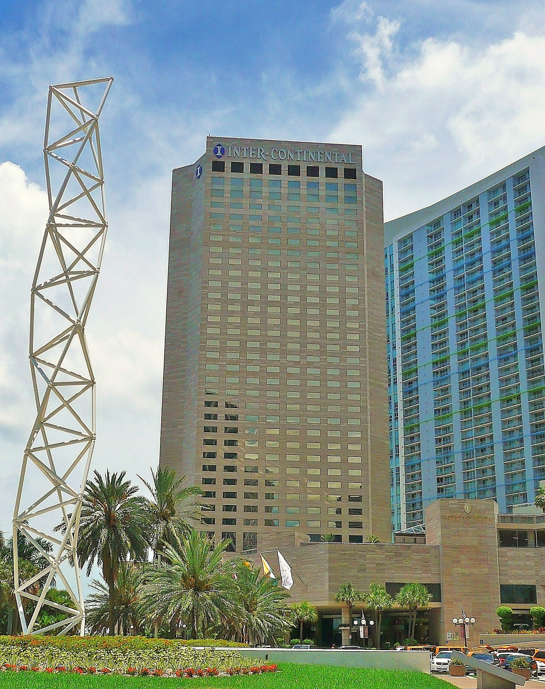 Digital photo taken by Marc Averette. The Hotel Intercontinental in Downtown Miami, Florida, United States.